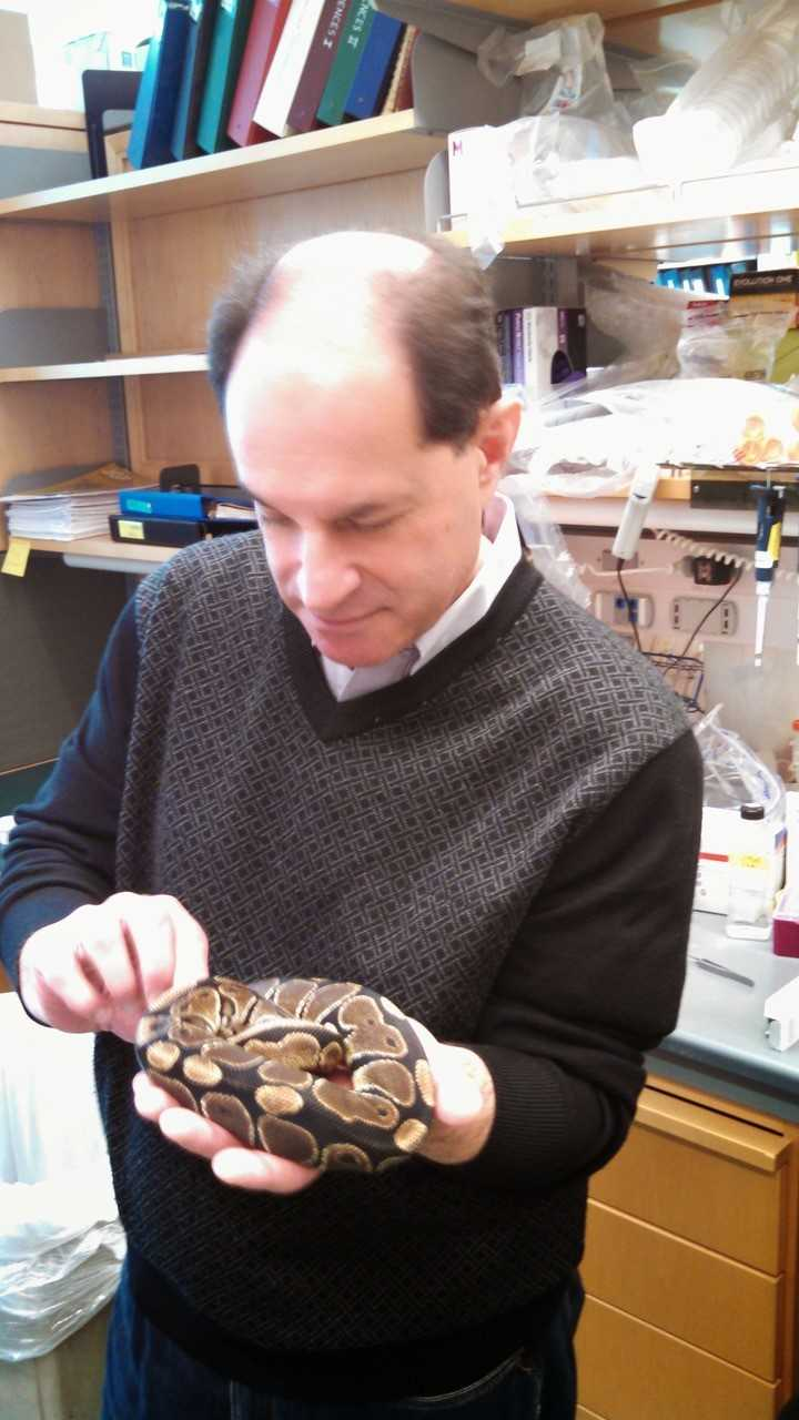 This is david julius holding a ball python. The picture was taken on an iphone by a member of the lab